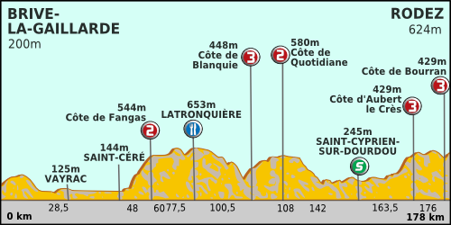 Paris-Nice 2012 Profile stage 4